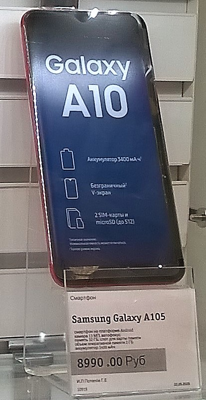 Russian mobile phones shop photographed on May 27, 2020